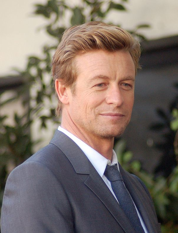 Simon Baker at a ceremony to receive a star on the Hollywood Walk of Fame.